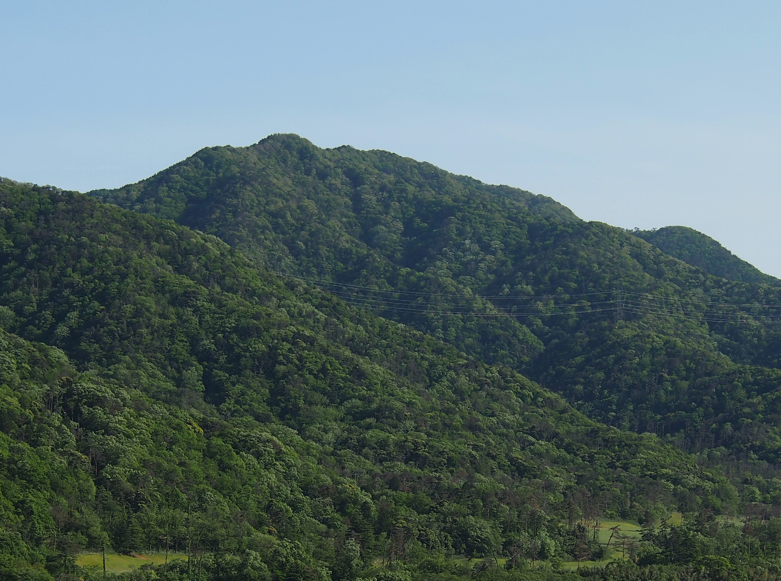 Mt.Iwagomori as seen from the north-northwest